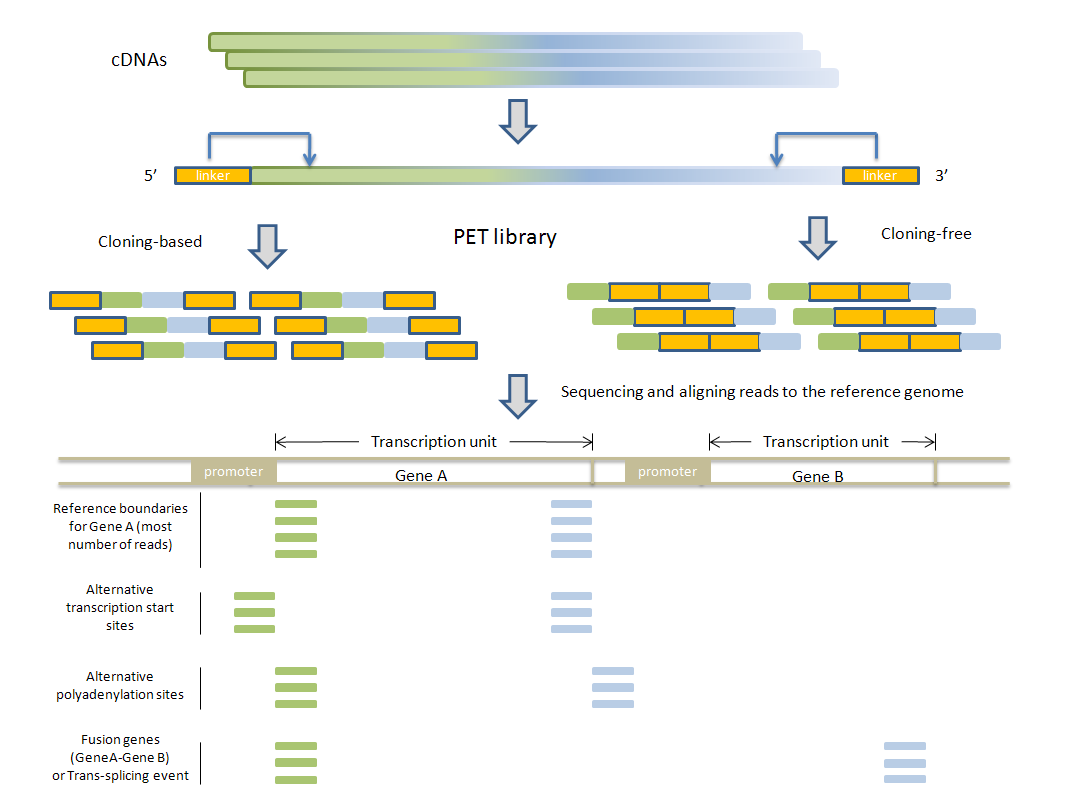 RNA-PET overview